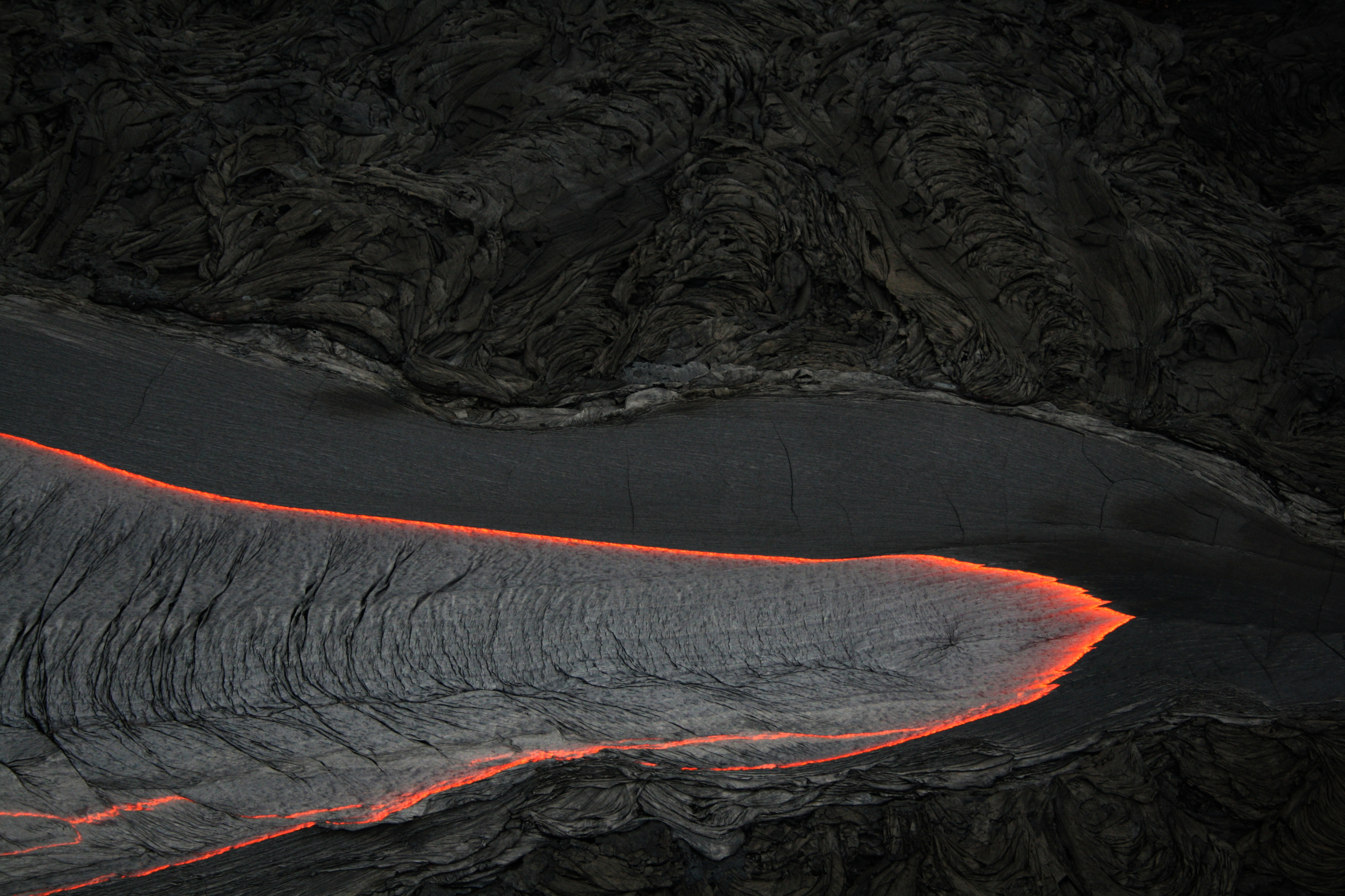 Pāhoehoe Lava flow at The Big Island of Hawaii. The lava flow is due to July 21 fissure eruption. The picture was taken from a helicopter. The link to the map of the flow by USGS